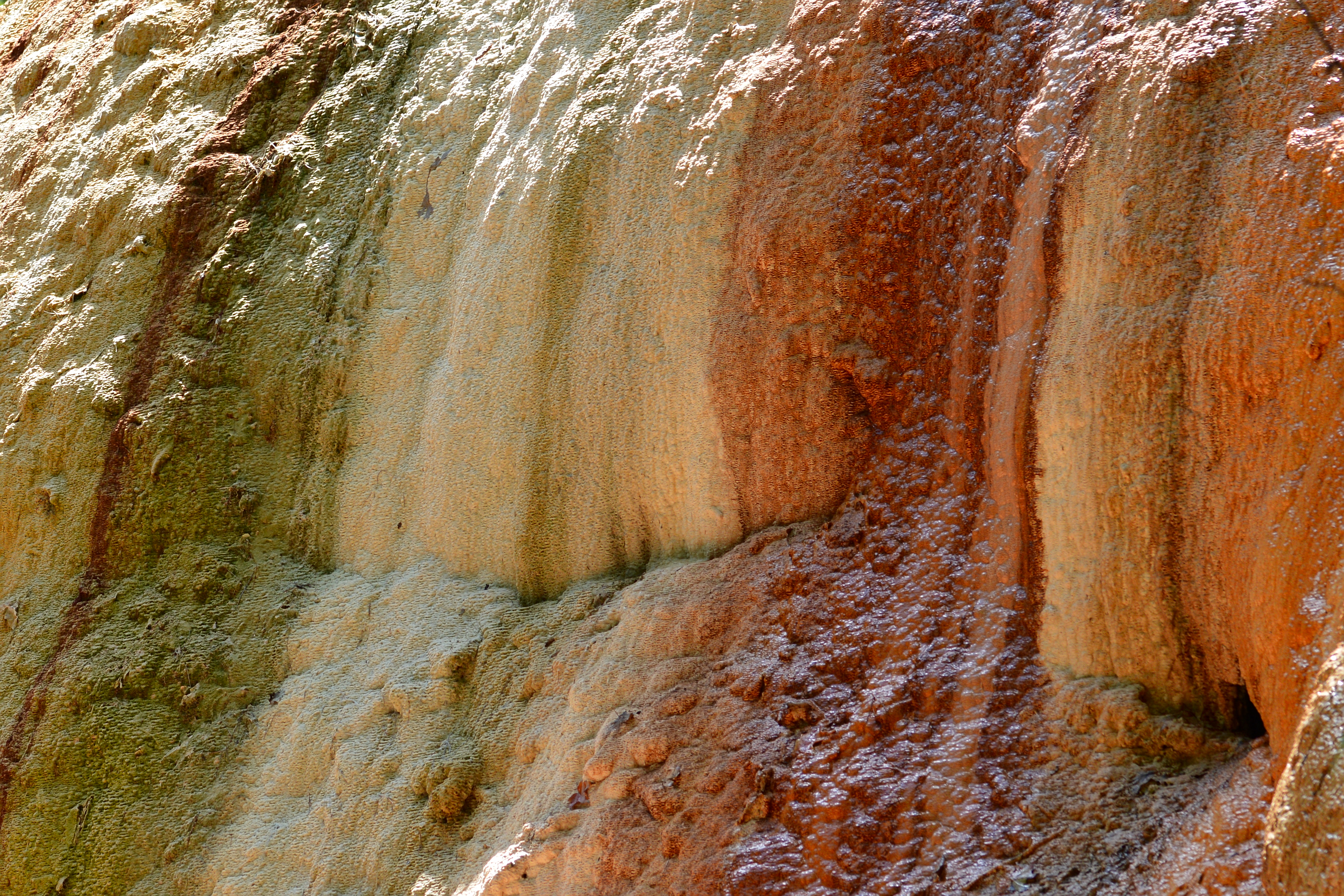 Orenda mineral spring tufa deposits at Saratoga Spa State Park in Saratoga Springs, New York, United States of America.